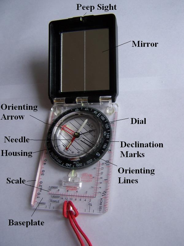 Partially annotated image of clinometer compass.